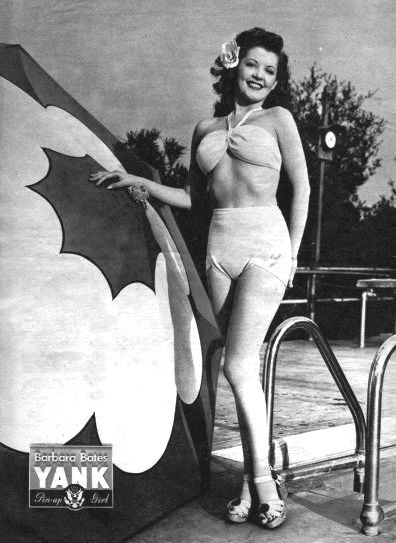 Pin-up photo of Barbara Bates — for the "Yank, the Army Weekly" cover, on the June 1, 1945 issue. It was a weekly U.S. Army magazine fully staffed by enlisted men.